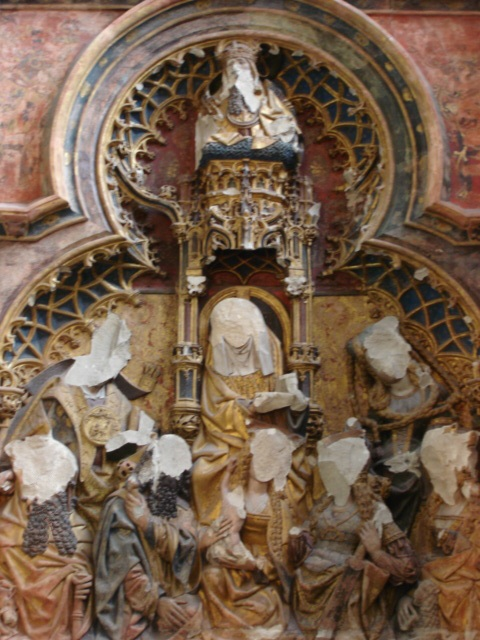 Altar retable of chapel "Jan van Arkel", Utrecht Cathedral (Domkerk). Found behind false plaster wall during restauration activities in 1919. Dated 15th century, defaced in 1572 during Protestant Reformation iconoclastic riots.